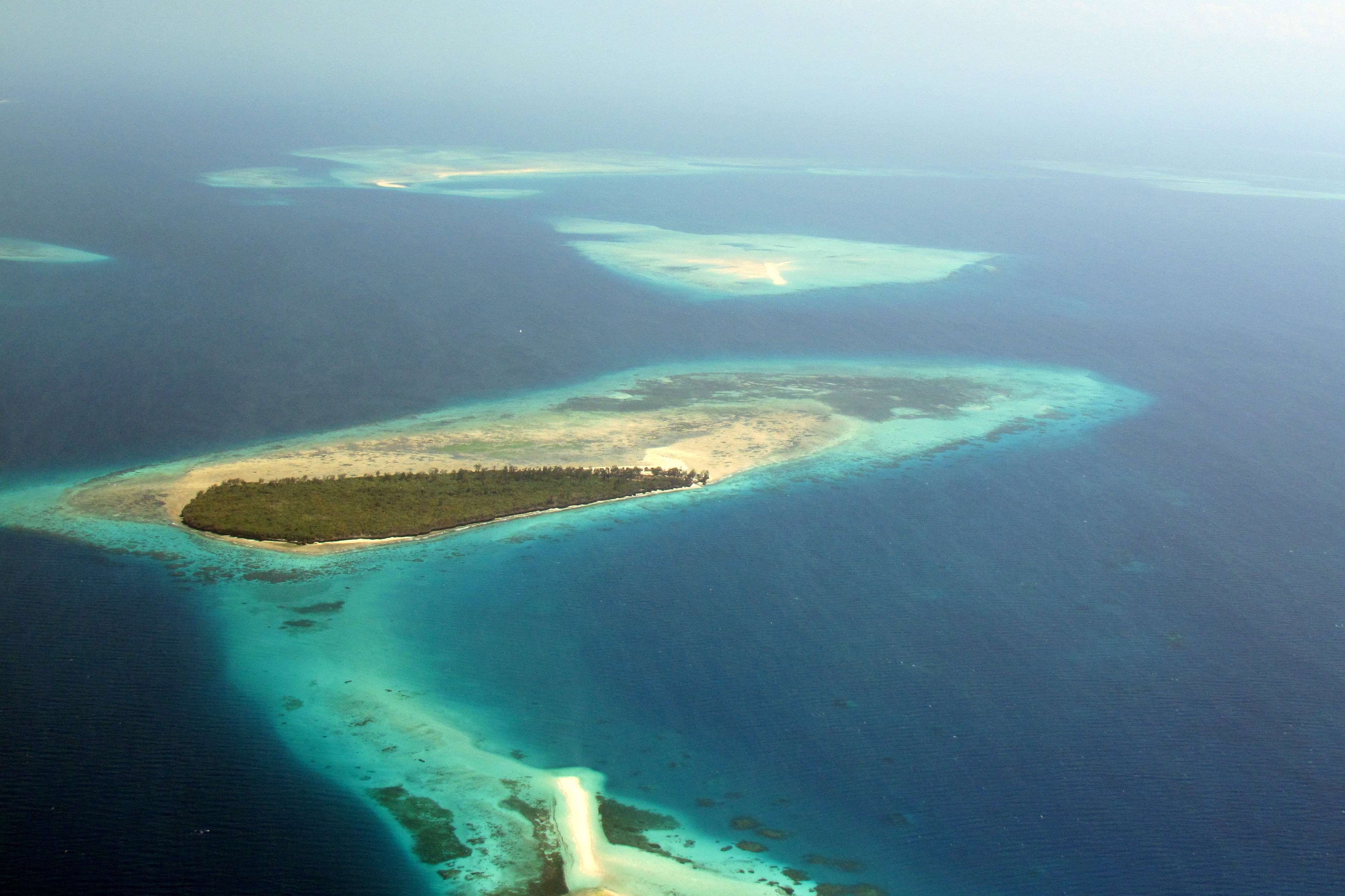 View from the plane of Unguja—Zanzibar Island — in the Zanzibar Archipelago of the Western Indian Ocean, off the east coast of Africa in Tanzania.